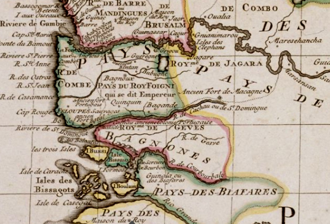 Location map of Banyun people (Carte de l'Afrique françoise ou du Senegal)